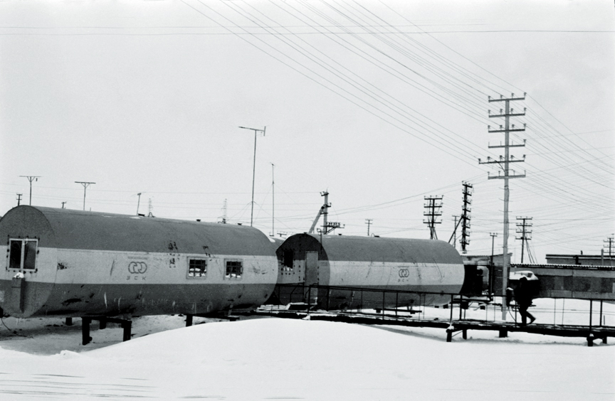 Yamburg, Yamalo-Nenets Autonomous Okrug. Modular Dwellings. 1986